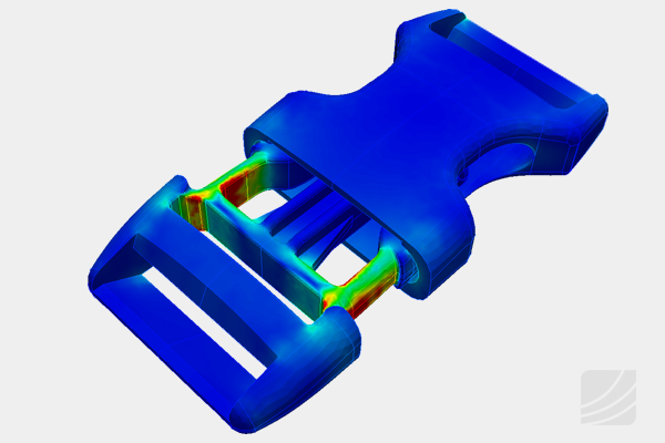 A contact analysis of a consumer snap fit mechanism is analyzed in this image.